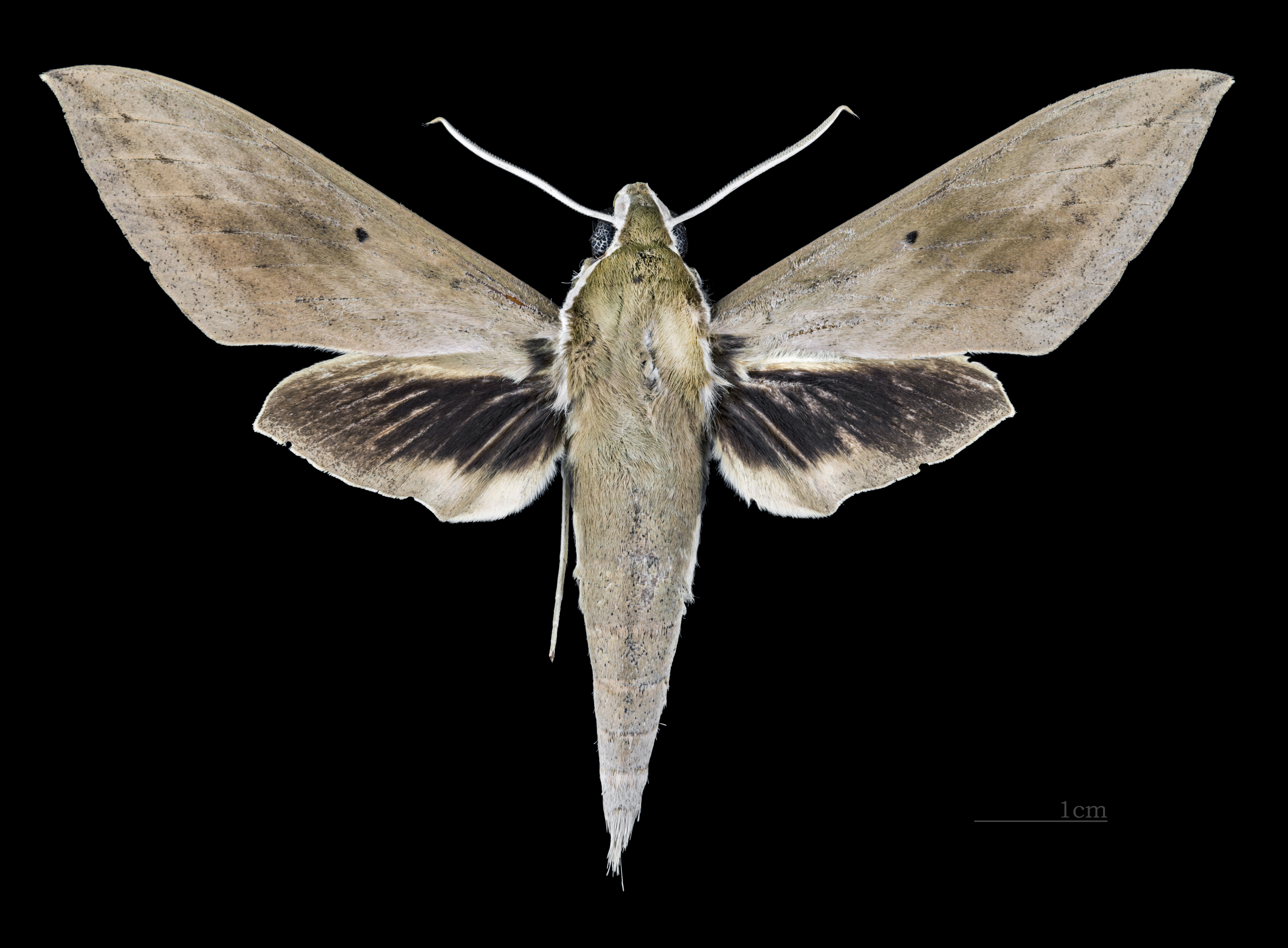 Theretra boisduvalii - Dorsal side